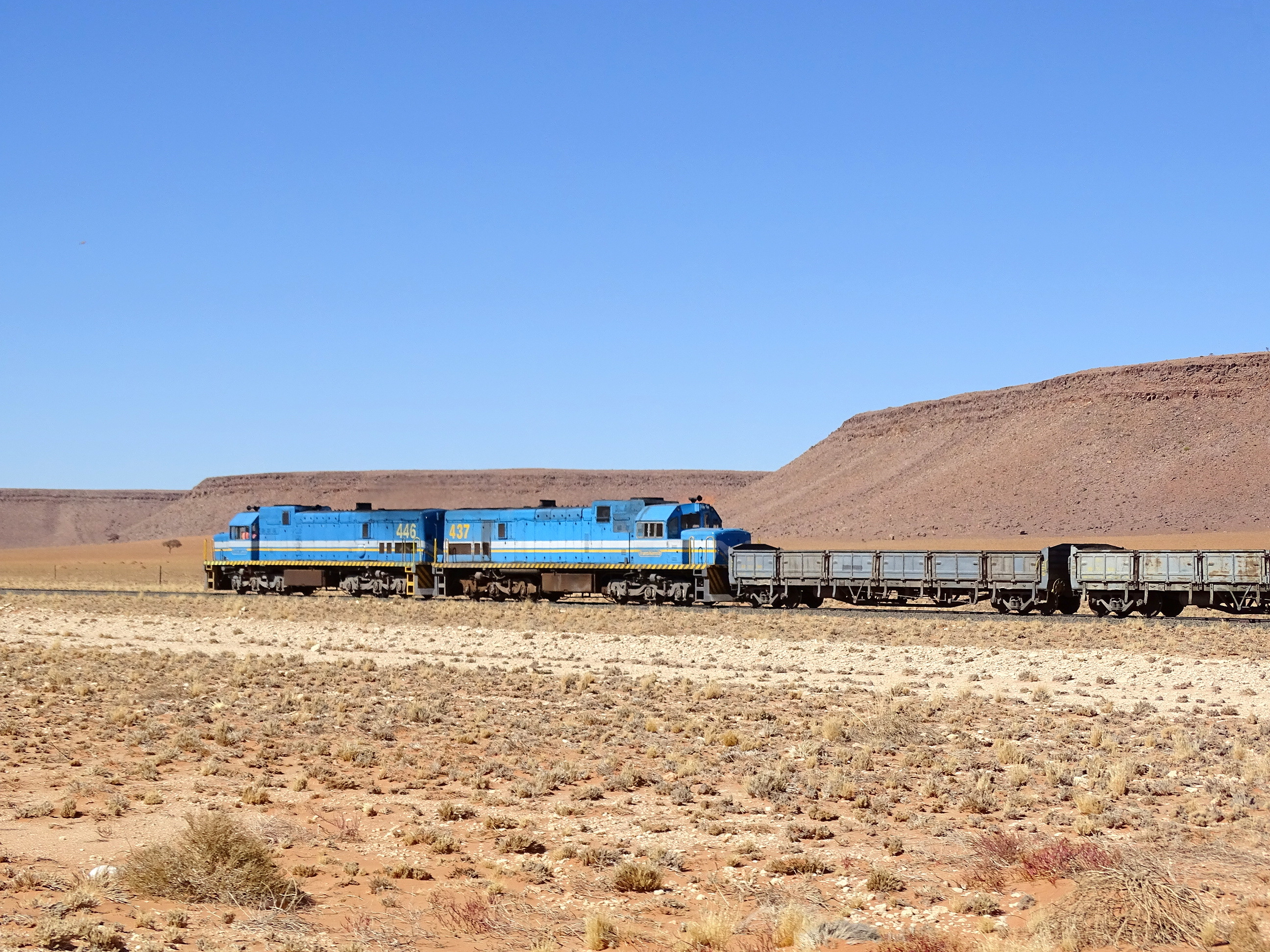 TransNamib Train near Kolmanskop, Namibia This is an image with the theme "Africa on the Move or Transport" from: Namibia